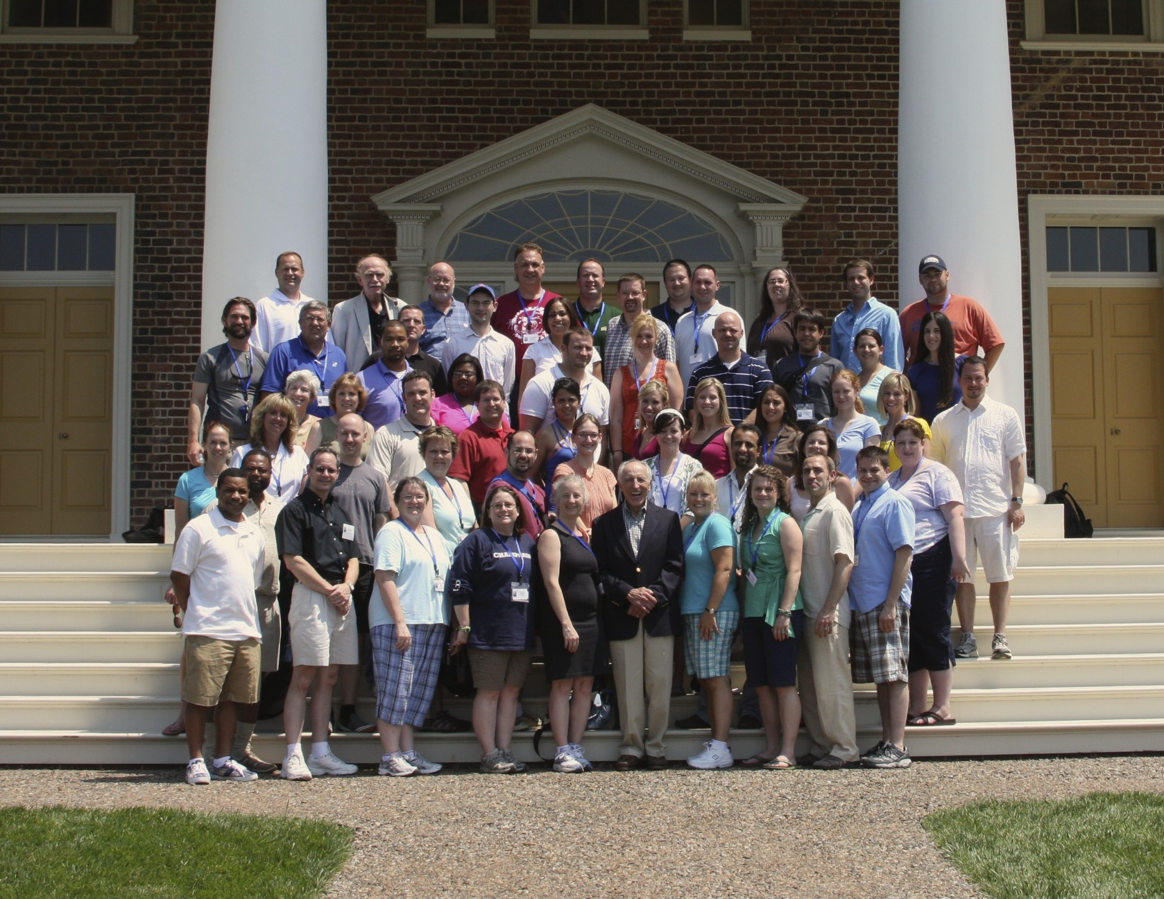 Group of 2009 James Madison fellows on the steps of Montpelier